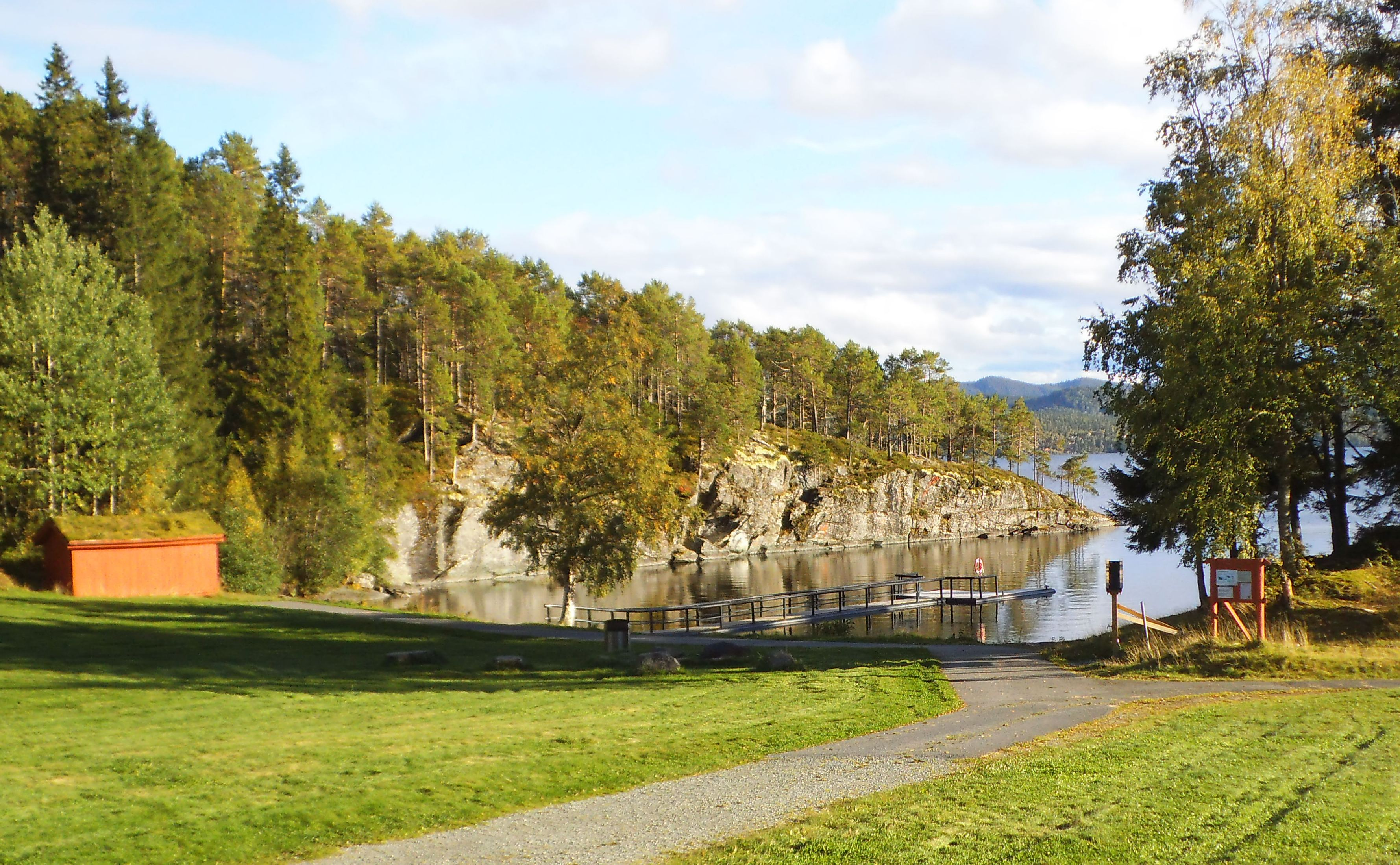 Grønneset badeplass, a small beach in Skaun, Norway. Taken in September 2012.